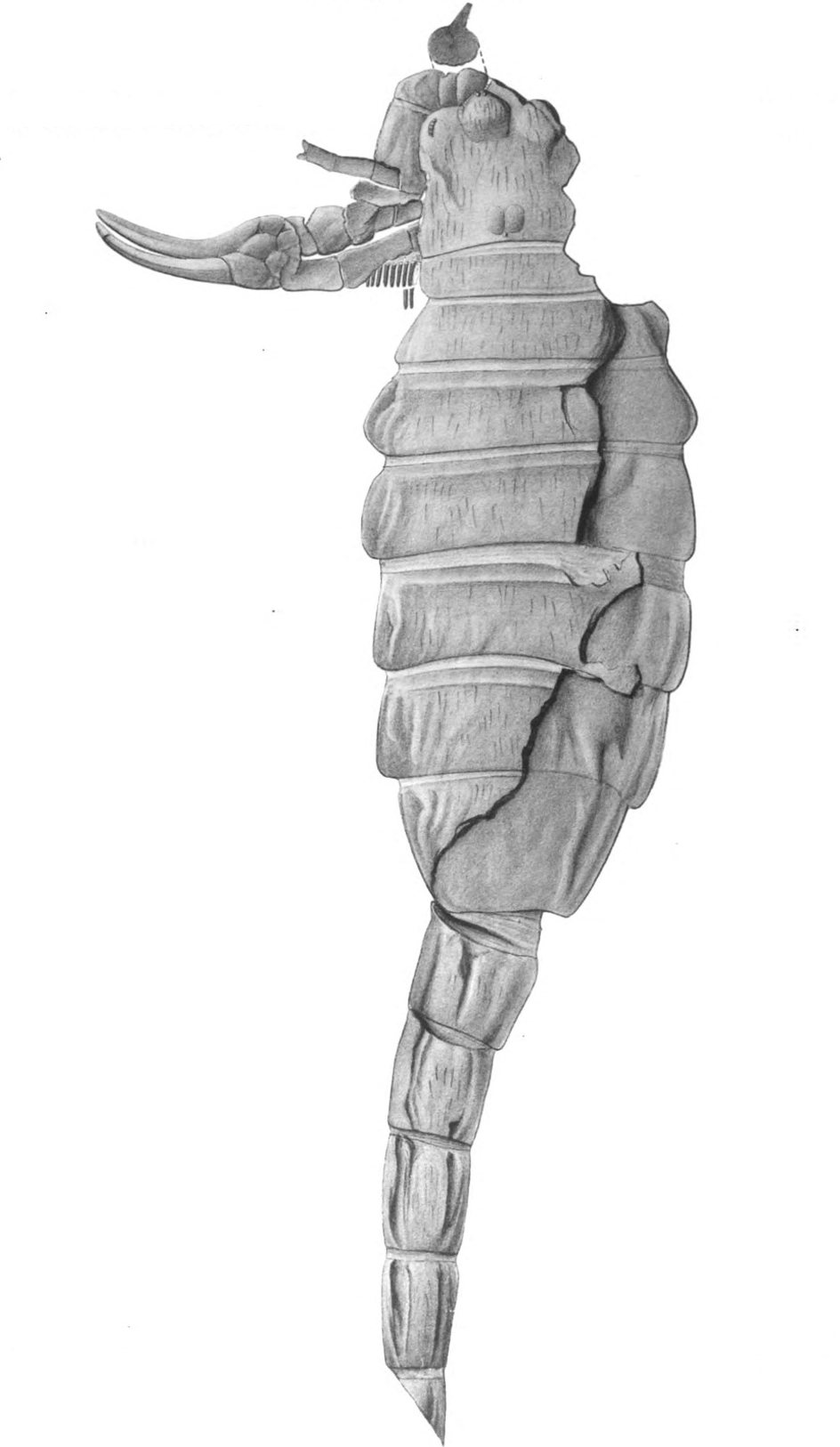 Proscorpius osborni fossil. The Eurypterida of New York. Volume 2. New York State Museum Memoir 14, plate 88